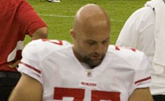 Tony Pashos on the sideline